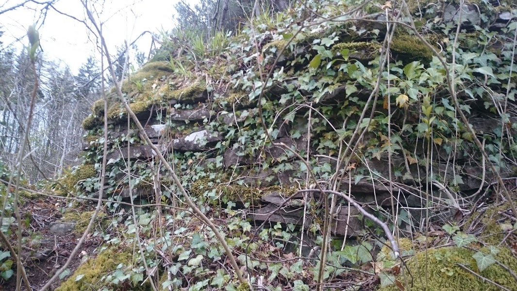 The foundations of an old dovecot later used as a Fog House base. Bonnington Isle, River Clyde, New Lanark. Scotland.